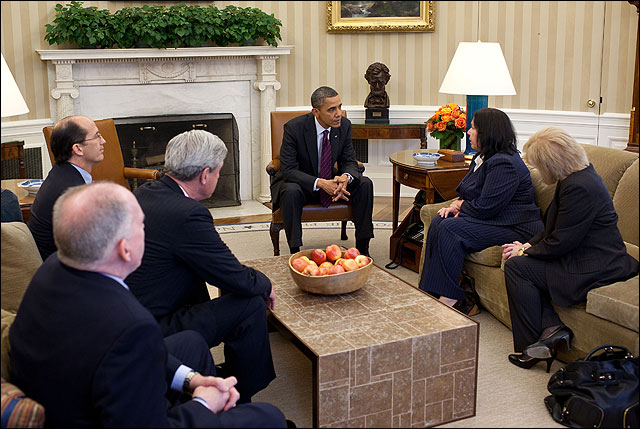 President Barack Obama meets with Christine Levinson in the Oval Office on March 6, 2012. During the meeting, President Obama reiterated to Mrs. Levinson—whose husband Robert Levinson disappeared in 2007 during a business trip to Kish Island, Iran—the U.S. government’s commitment to her husband’s safe return and said that the U.S. will continue to work tirelessly until he is home safely. Pictured, from left, are: John Brennan, Assistant to the President for Homeland Security and Counterterrorism; Sean Joyce, Deputy Director FBI; FBI Director Robert Mueller; and Suzi Halpin, Christine Levinson’s sister. (Official White House Photo by Pete Souza).